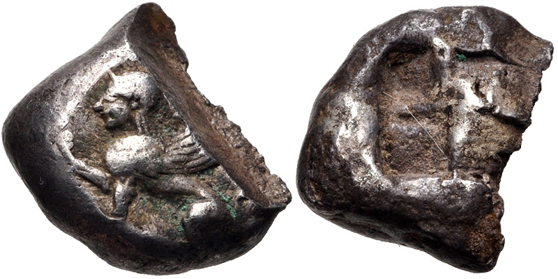 ISLANDS off IONIA, Chios. Circa 525-510 BC